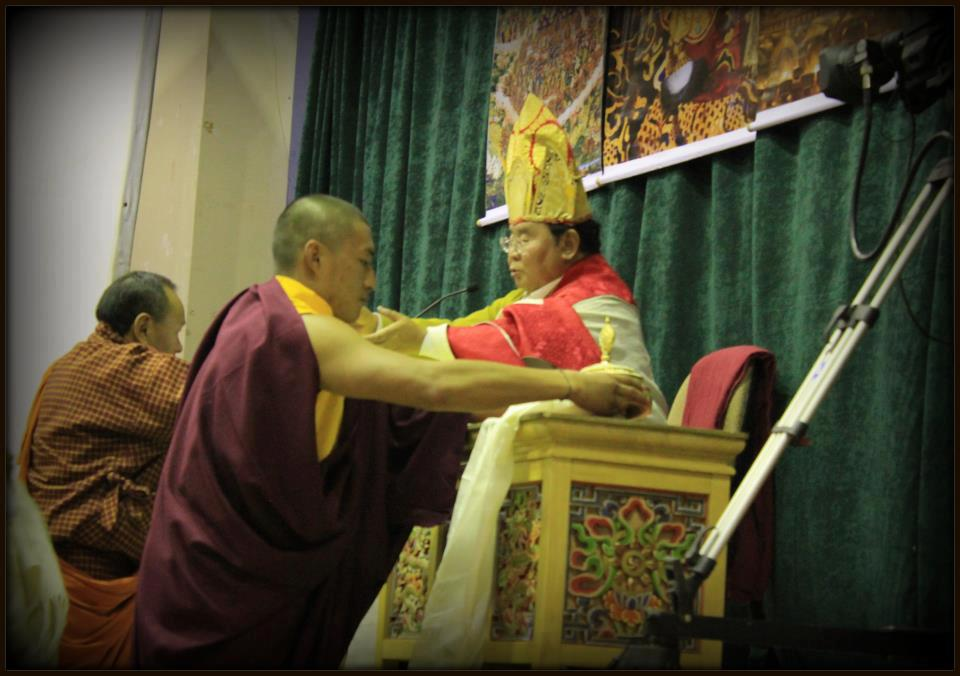 Sogyal Rinpoche performing an empowerment ritual in Bhutan, with the Bhutanese Prime Minister